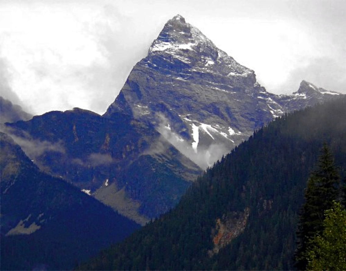 Mount Sir Donald seen from highway.